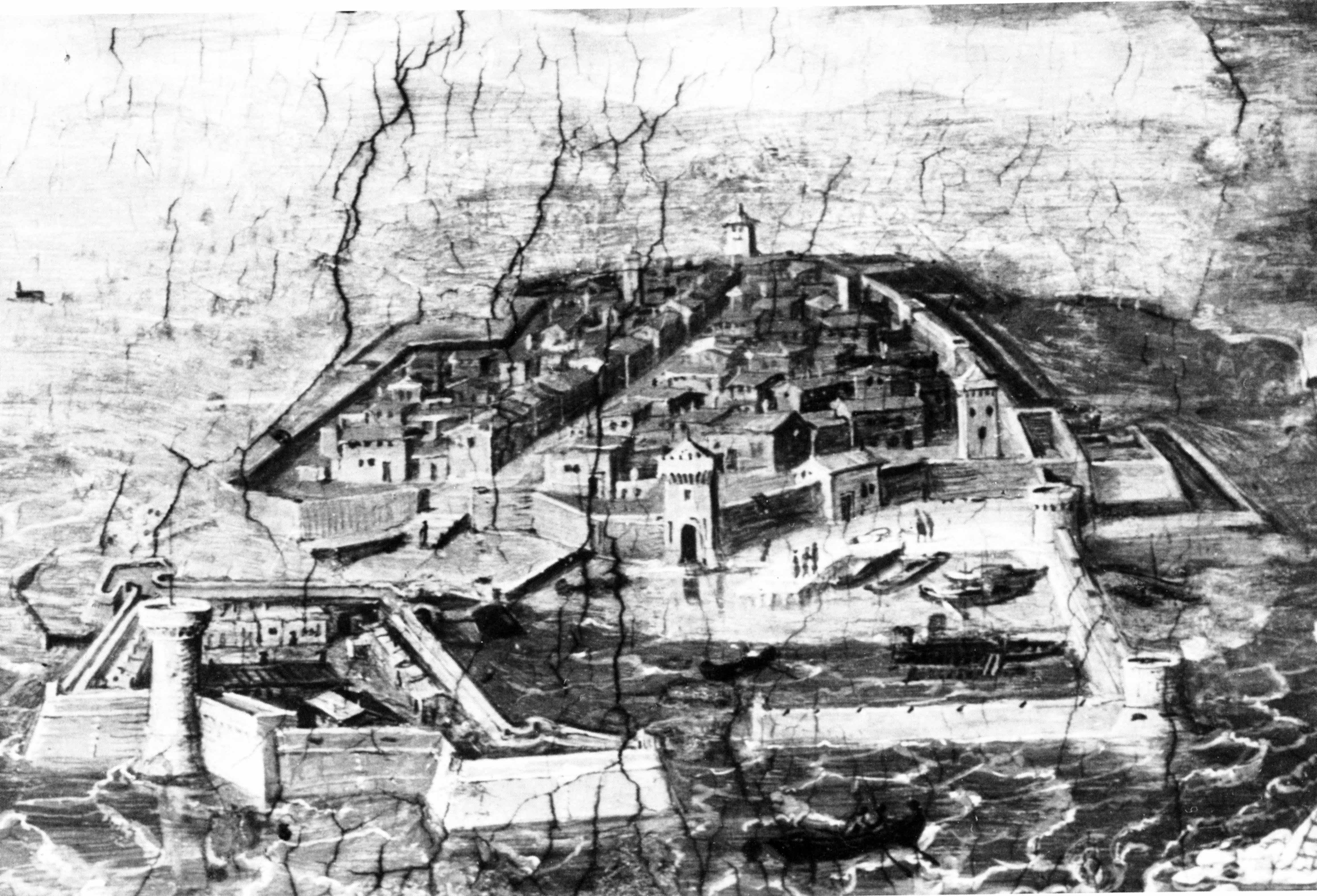 Italy, Livorno. The first nucleus of Livorno, in the foreground is Fortezza Vecchia and the Vecchia Darsena, in the background is visibile the Via Maestra.